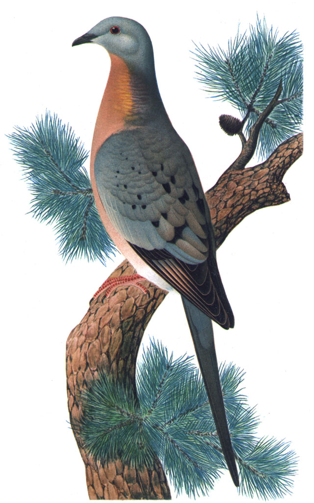 Passenger Pigeon, Ectopistes migratorius, male, chromolithograph after painting.